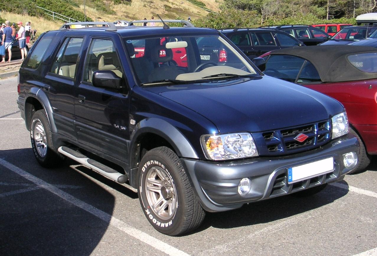 Front-view of the "Jiangling Landwind"